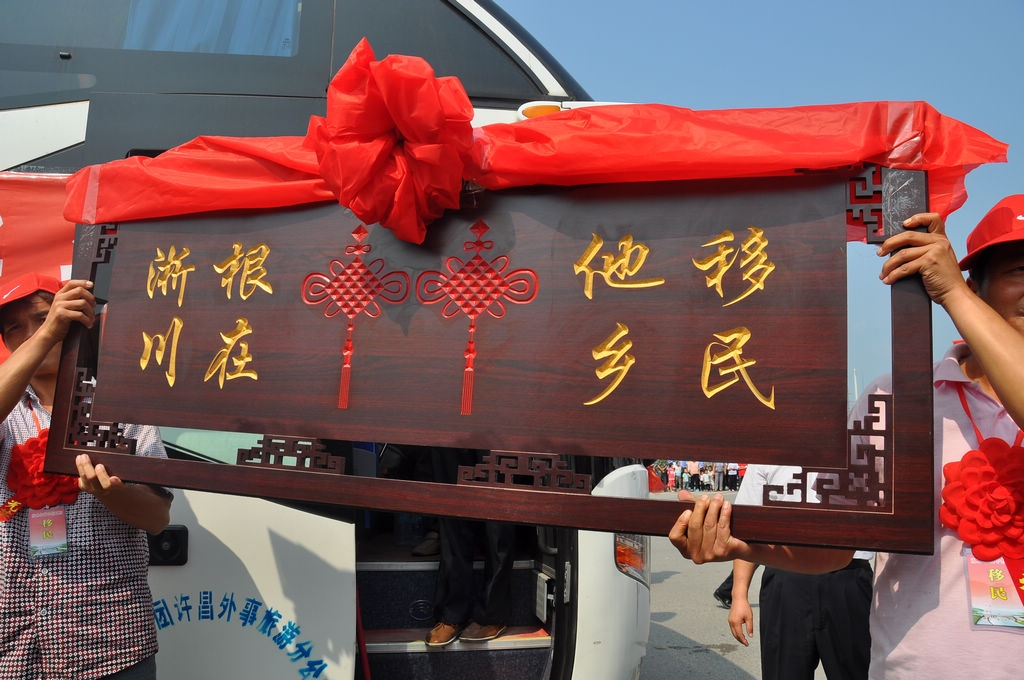 Xichuan yimin